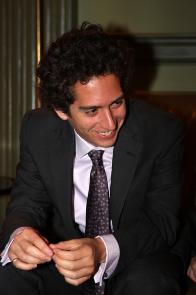 Writer Daniel Alarcón at the Mercantile Library Center for Fiction's Annual Benefit and Awards Dinner, held at the New York Tennis and Racquet Club at 350 Park Avenue, where he was a nominee for the John Sargent, Sr. First Novel Prize. October 29, 2007.